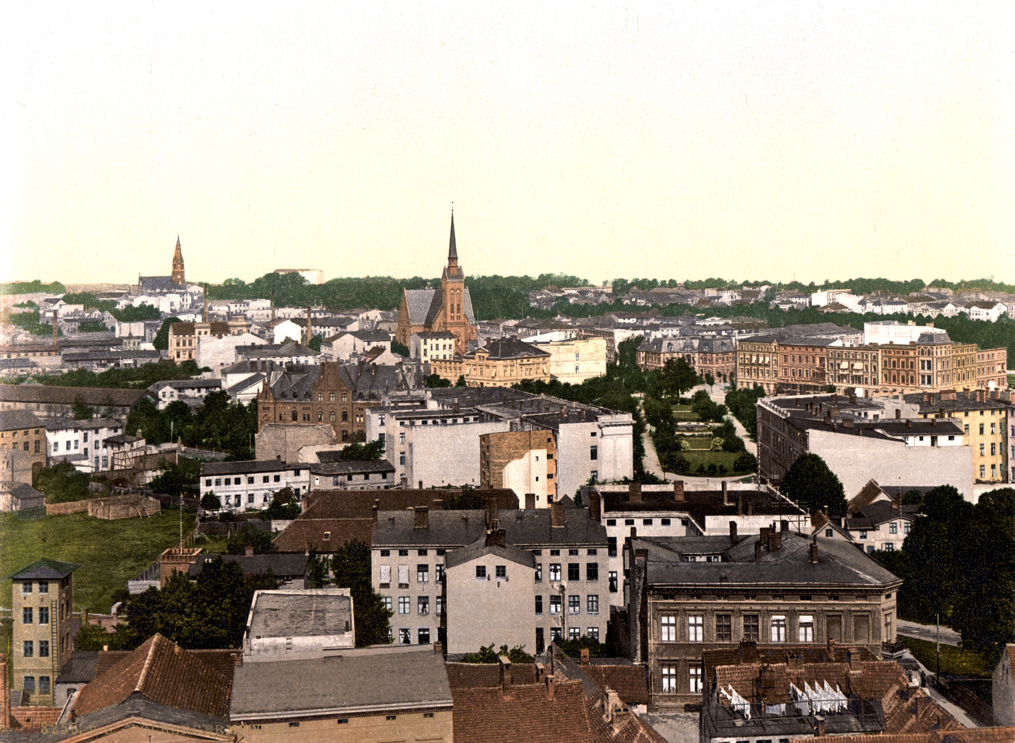 General view, Kolobrzeg, Poland, c 1890-1905 (at the time Colberg, Pomerania, Germany)